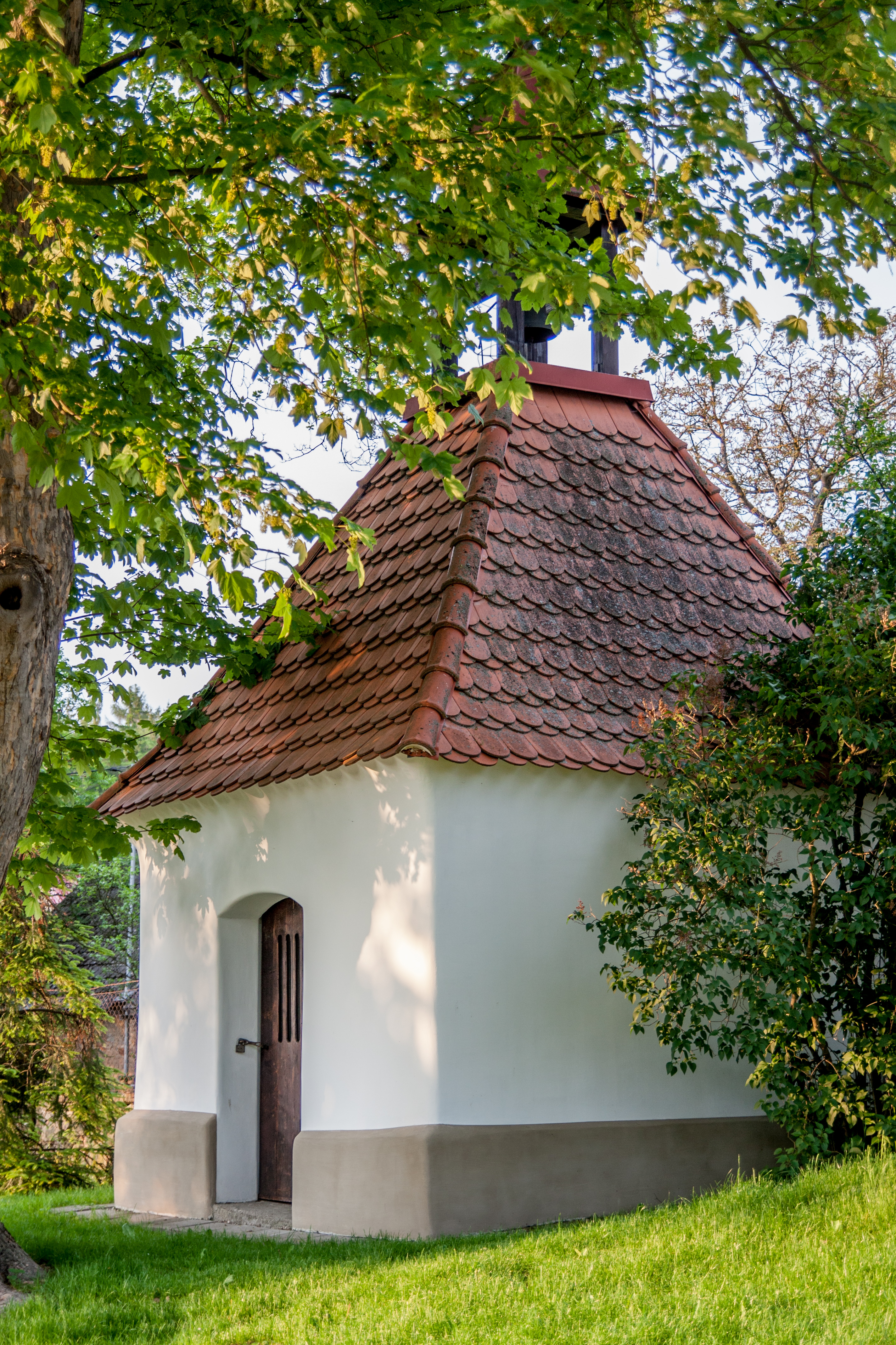 Chapel in village Miroslav, Benešov District, Central Bohemian Region, Czechia